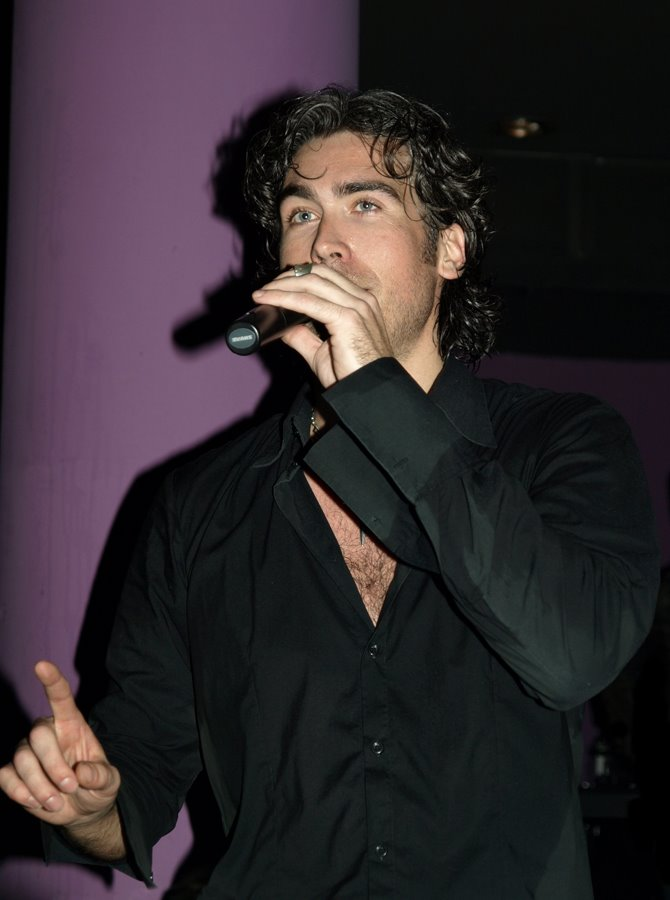 Jan Plestenjak at 2008 concert